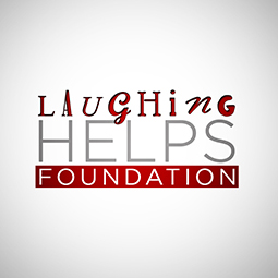 Logo of the foundation Laughing Helps founded by Sara Schätzl (